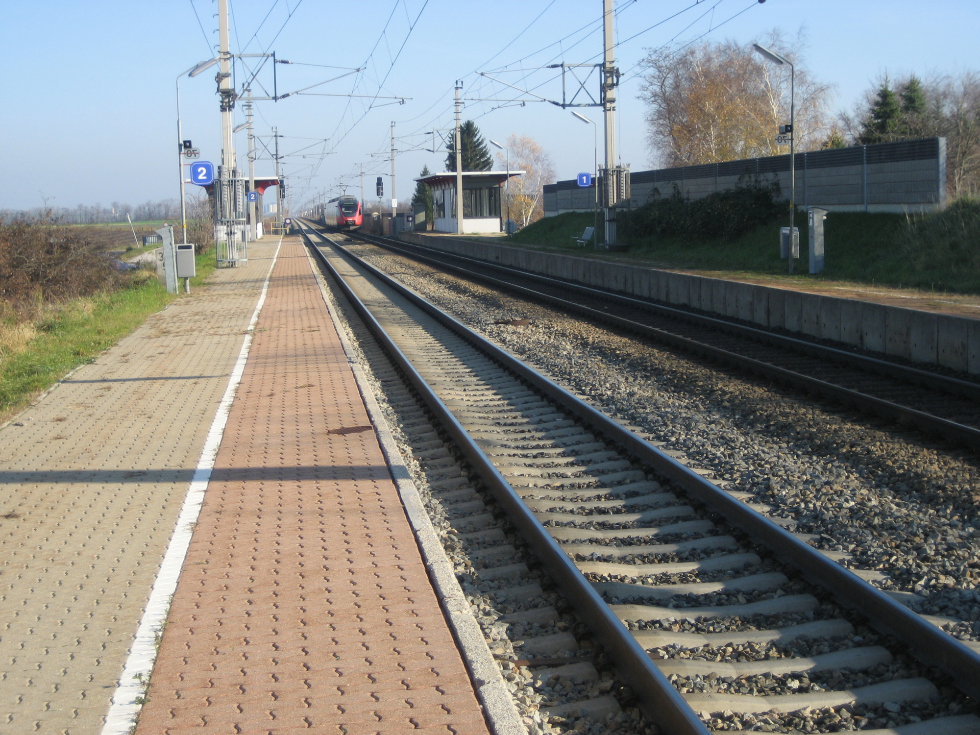 train station Sarasdorf in Lower Austria